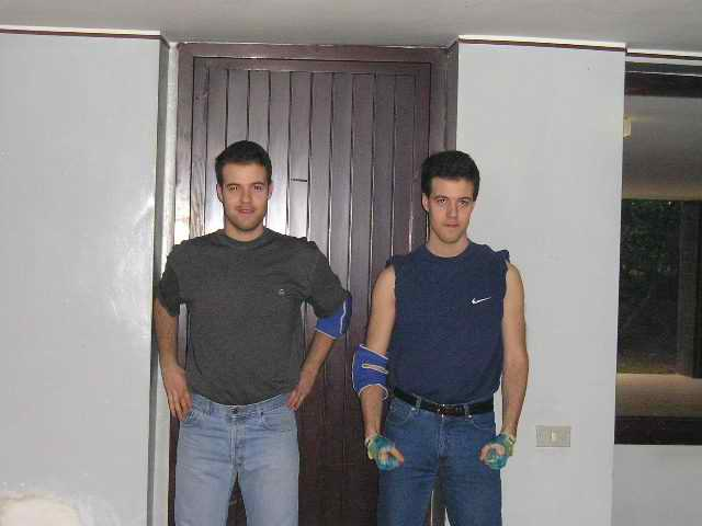 Italian twins